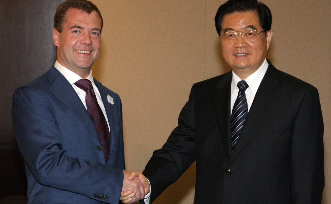 With Chairman of the People's Republic of China Hu Jintao [President of Russia Dmitry Medvedev at G-20 summit in Toronto]